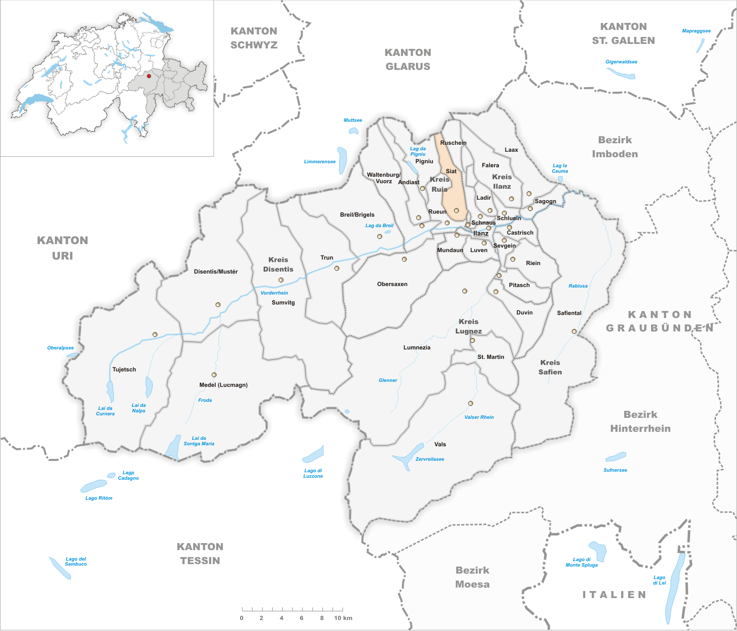 Municipality Siat